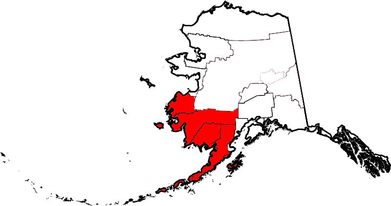 Map of Southwest Alaska as defined by boroughs and census areas, based on this Alaska Office of Economic Development map